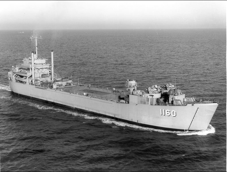 United States Navy landing ship tank USS Traverse County (LST-1160) ca. 1969